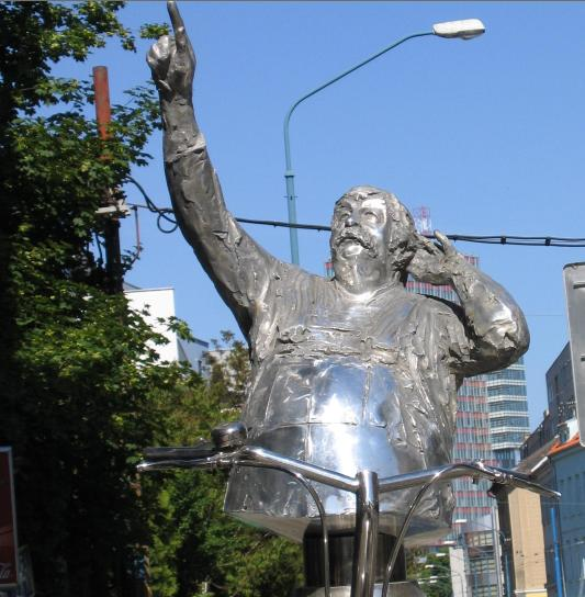 Július Satinský Monument in Bratislava (Dunajská street)